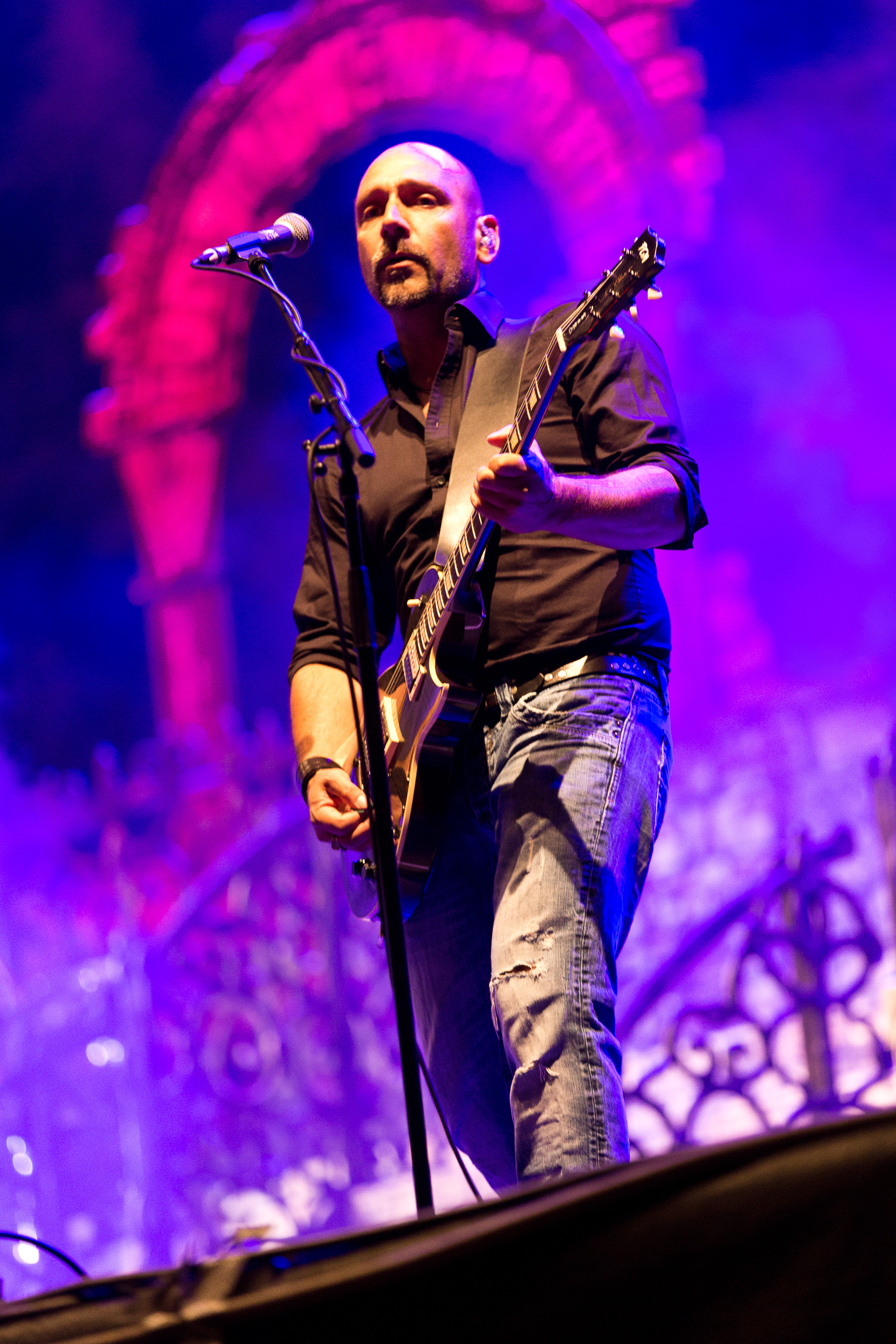 The German supergroup rock opera Avantasia at the Rockharz Open Air 2016 in Ballenstedt/Germany.